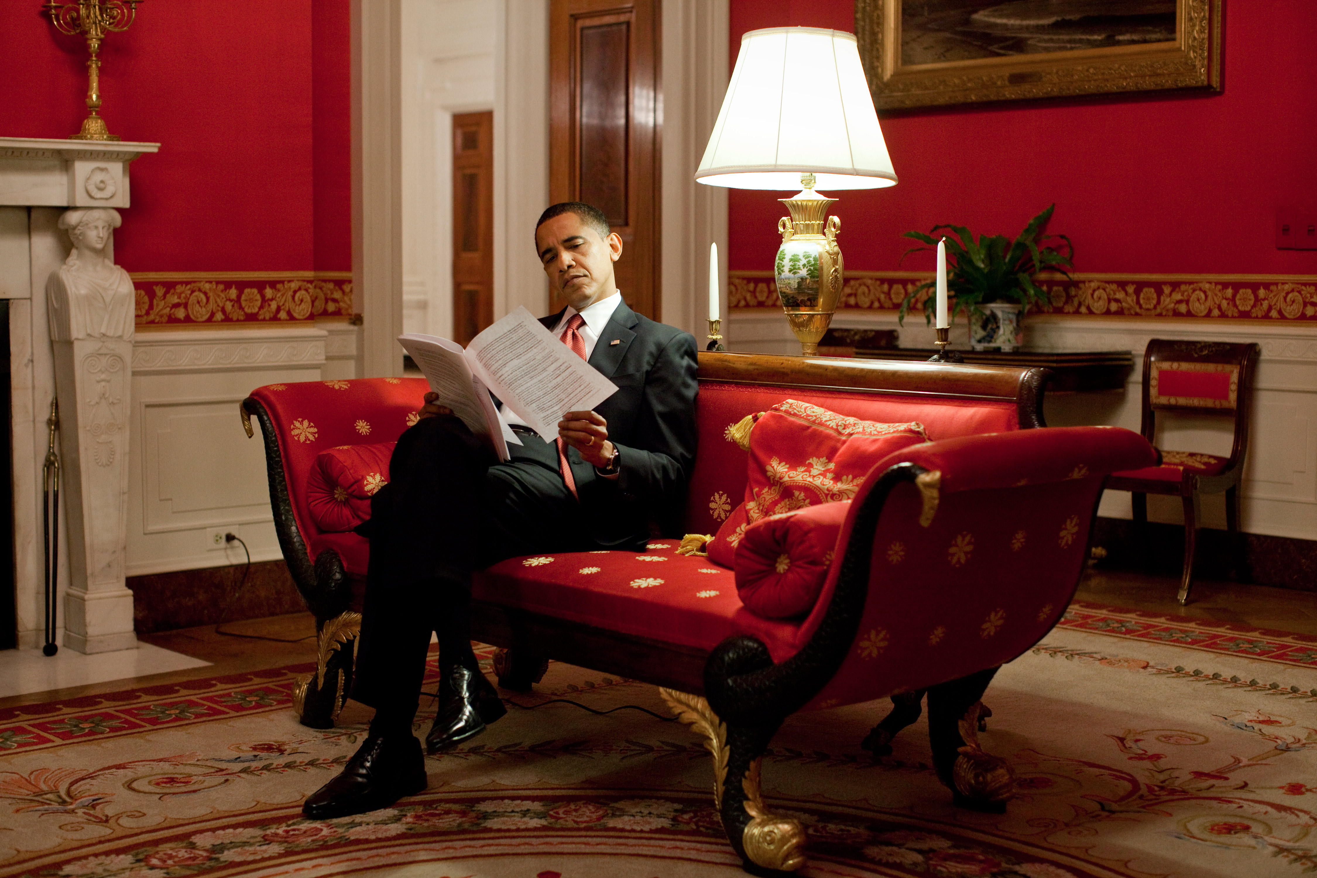 President Obama goes over notes in the Red Room prior to a Live Prime Time Press Conference in the East Room of the White House 3/24/09. Official White House Photo by Pete Souza.